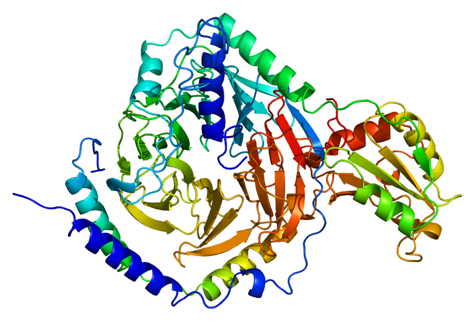 Structure of the PDC protein. Based on PyMOL rendering of PDB 2trc.